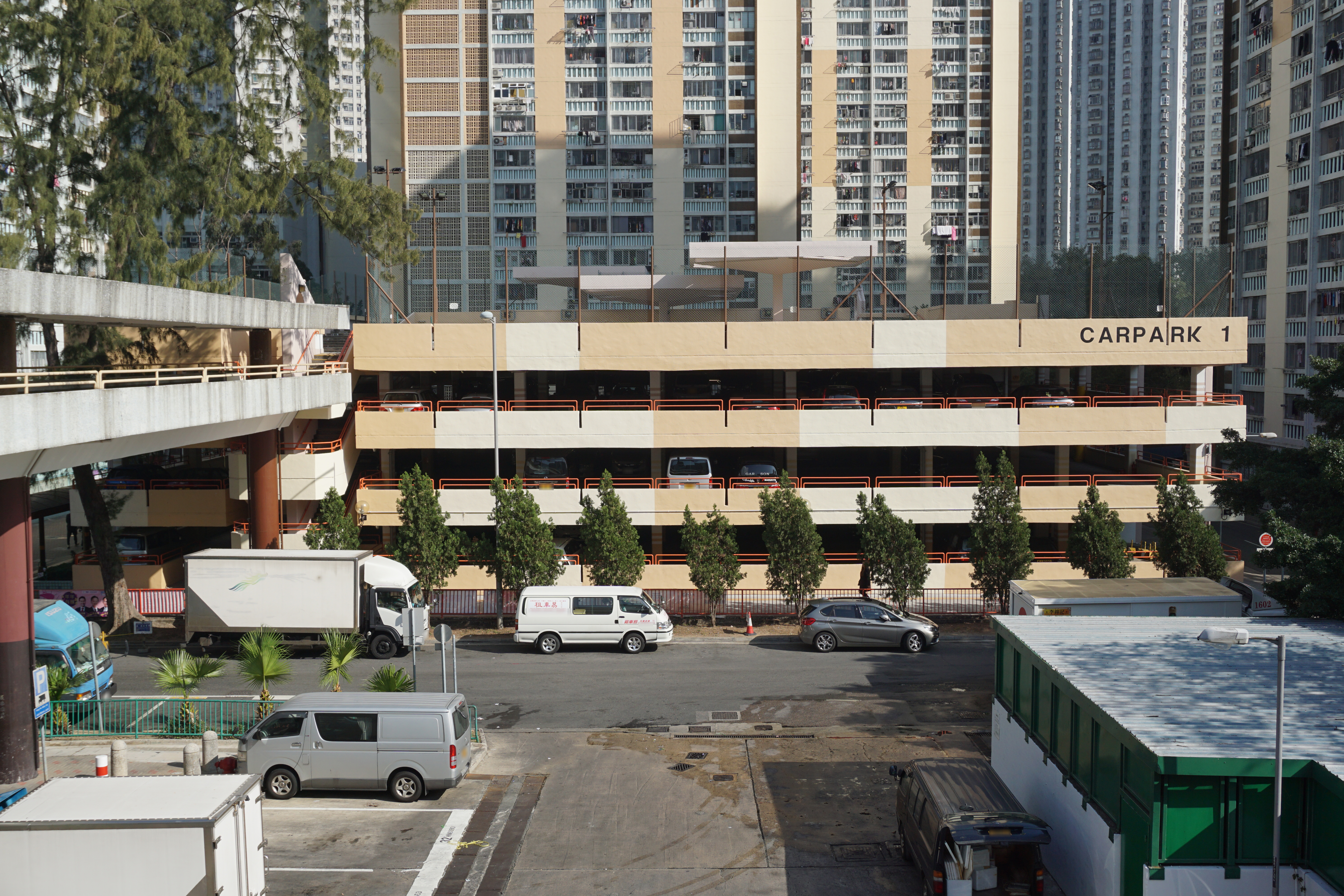 Wu King Estate in Tuen Mun, Hong Kong.